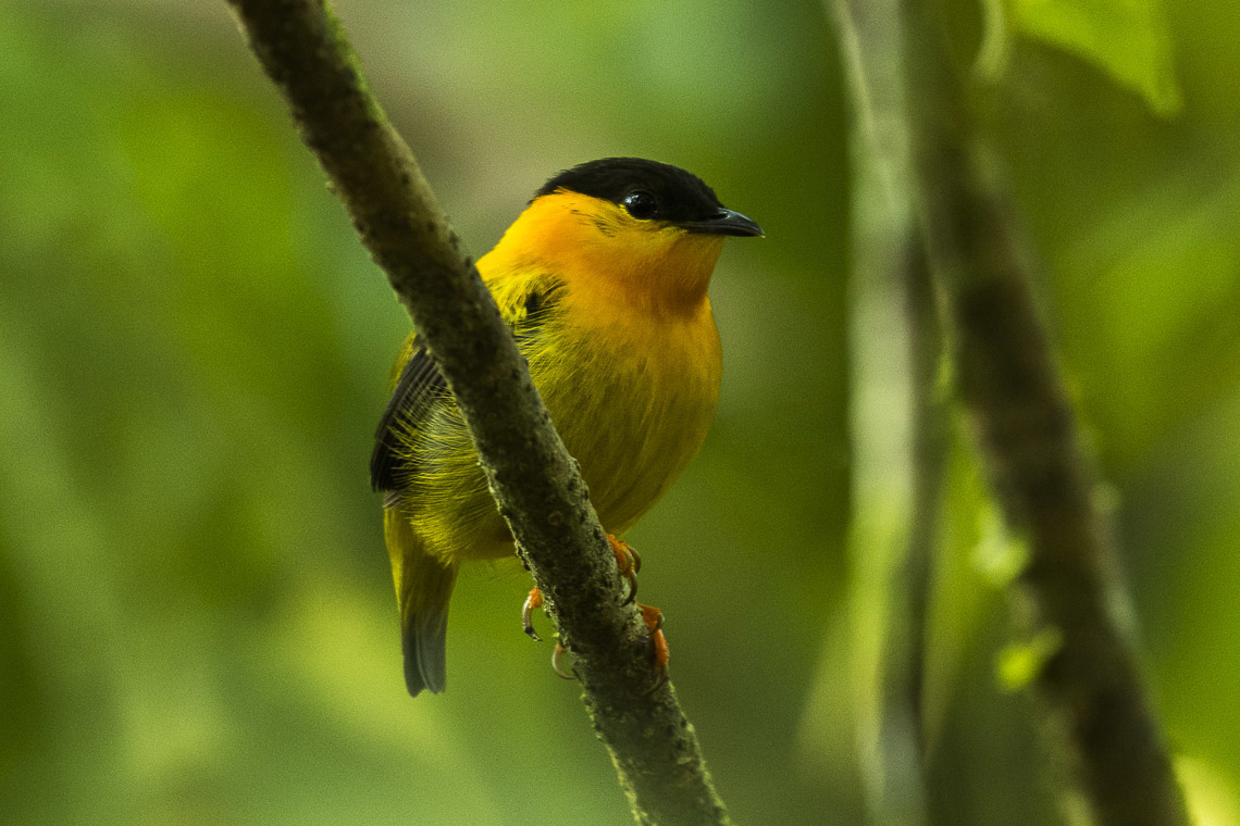 Orange-collared Manakin - Rio Tigre - Costa Rica_MG_7859